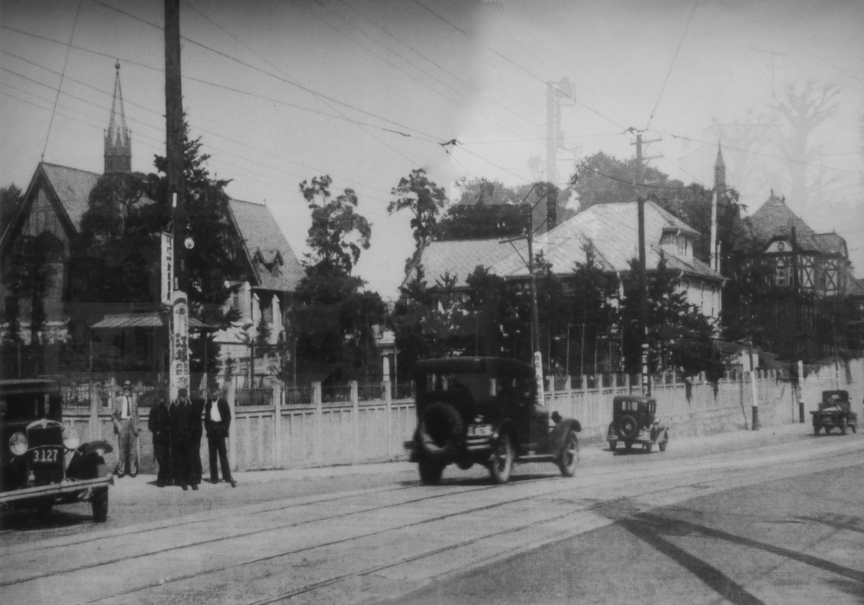 Meiji Gakuin University (明治学院大学 Meiji gakuin daigaku) is a Christian university in Tokyo and Yokohama that was established in 1863. This is in front of the Tokyo campus in 1927. (There are some faint reflections in this picture, due to my poor reproduction of original photo.)